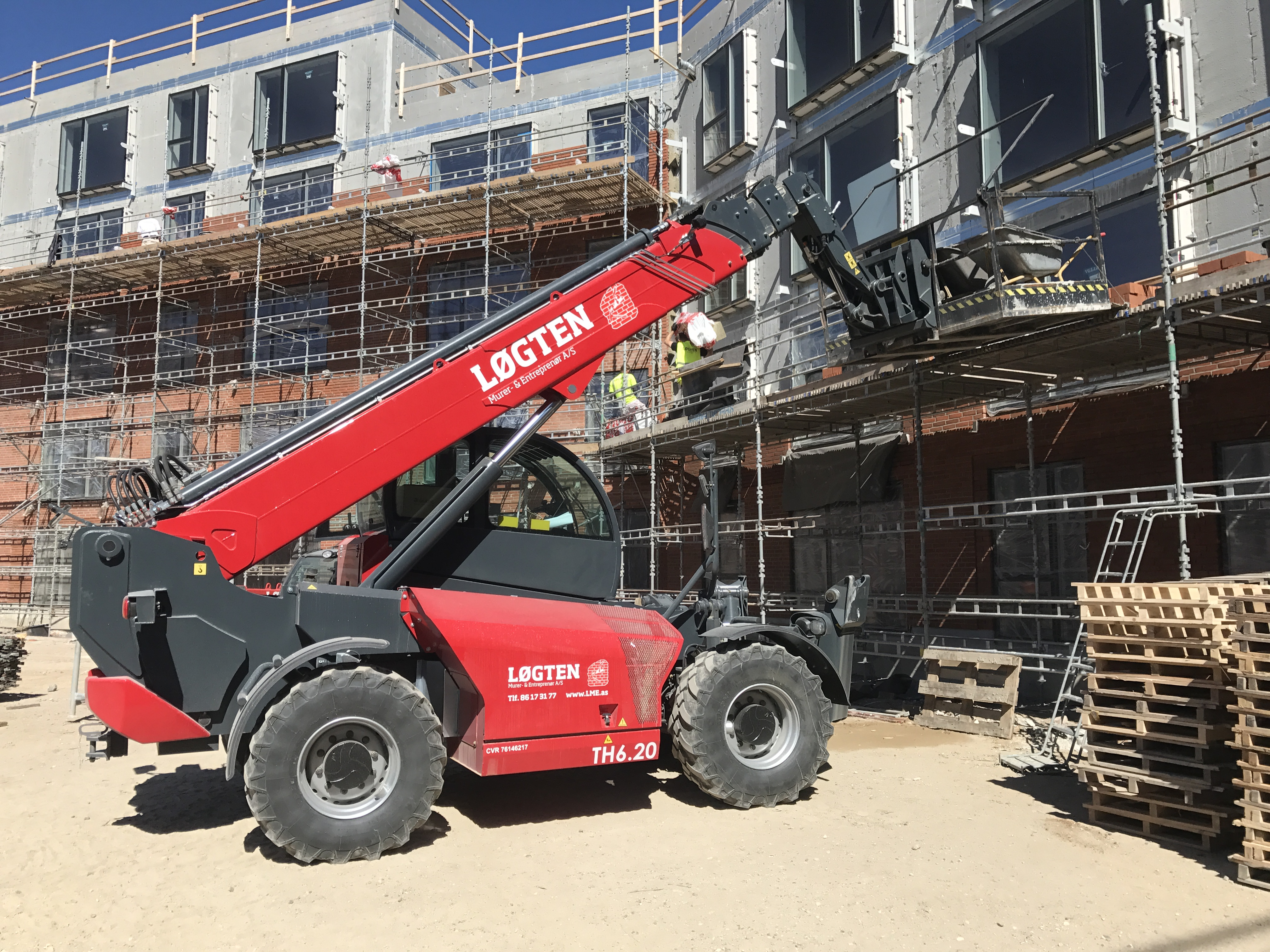 Magni telehandler with materialbasket in use at construction site